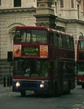 An unidentified Metroline bus of the AV class, pictured heading east along the Strand operating London Buses route 4 en route to Waterloo station. It has only just entered the Strand, with the statue in the background being the Temple Bar griffin marking the end of Fleet Street. The AV class were Volvo Olympian double-deckers with Alexander RH-type bodywork. By the registration letters P---MBY, this bus was in the 1996 batch bought by Metroline, numbered AV1-AV22. A second batch followed in 1998, in the S--RLE series, numbered AV23-AV38. (Neither batch were numbered in a fully consecutive series). The AV class lasted with Metroline until 2008, but only some of them worked the number 4, based out of Holloway garage, and only then for a relatively short period, from May 2003 to December 2005, having replaced older V class buses on the route (1993/4 Volvo Olympians with Northern Counties Paladin II bodies, inherited with the purchase of MTL London), and then being replaced themselves in favour of low floor buses.